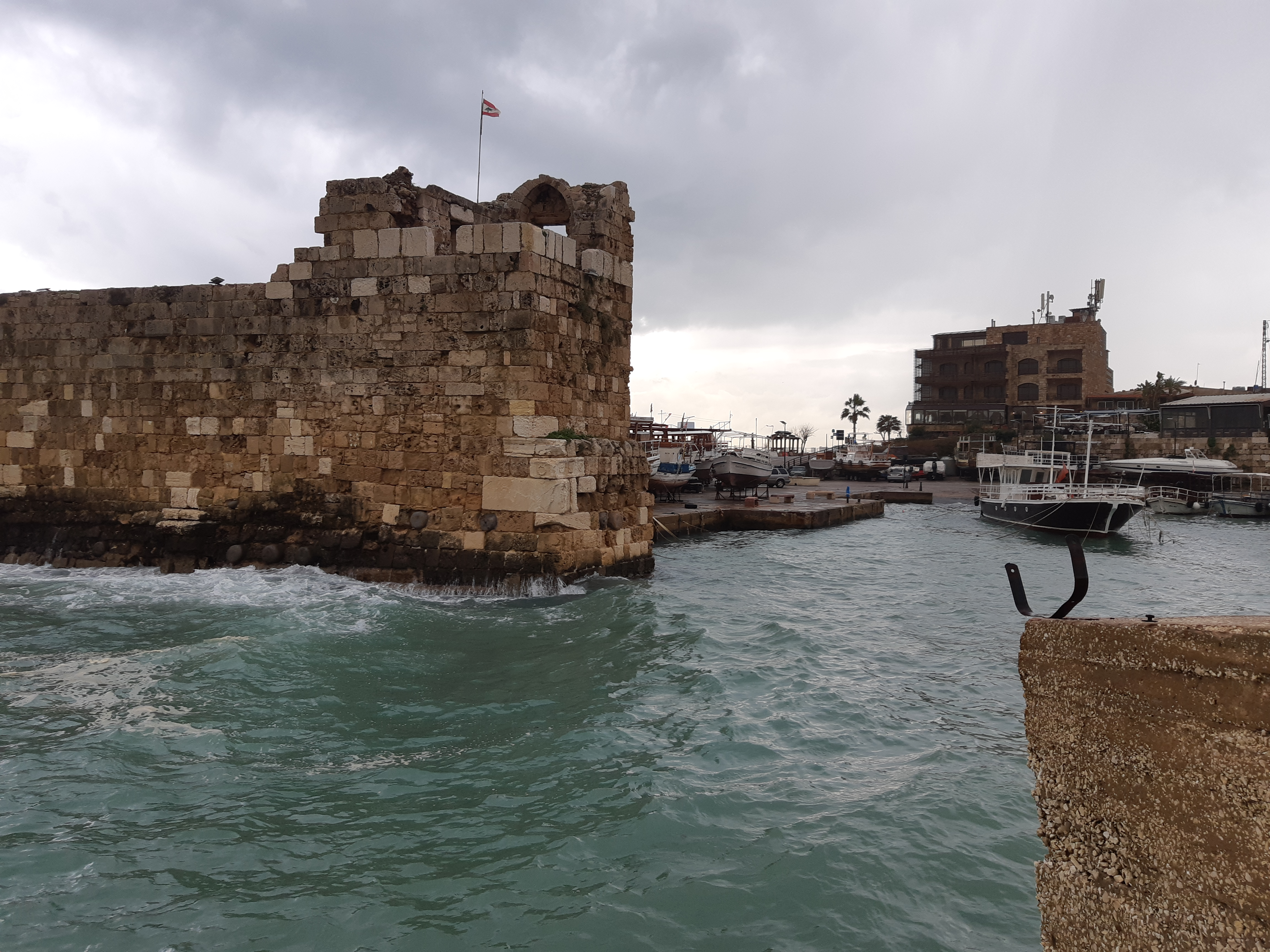 Ancient port in Byblos